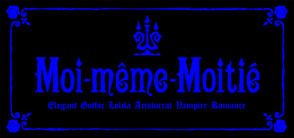 Logo made